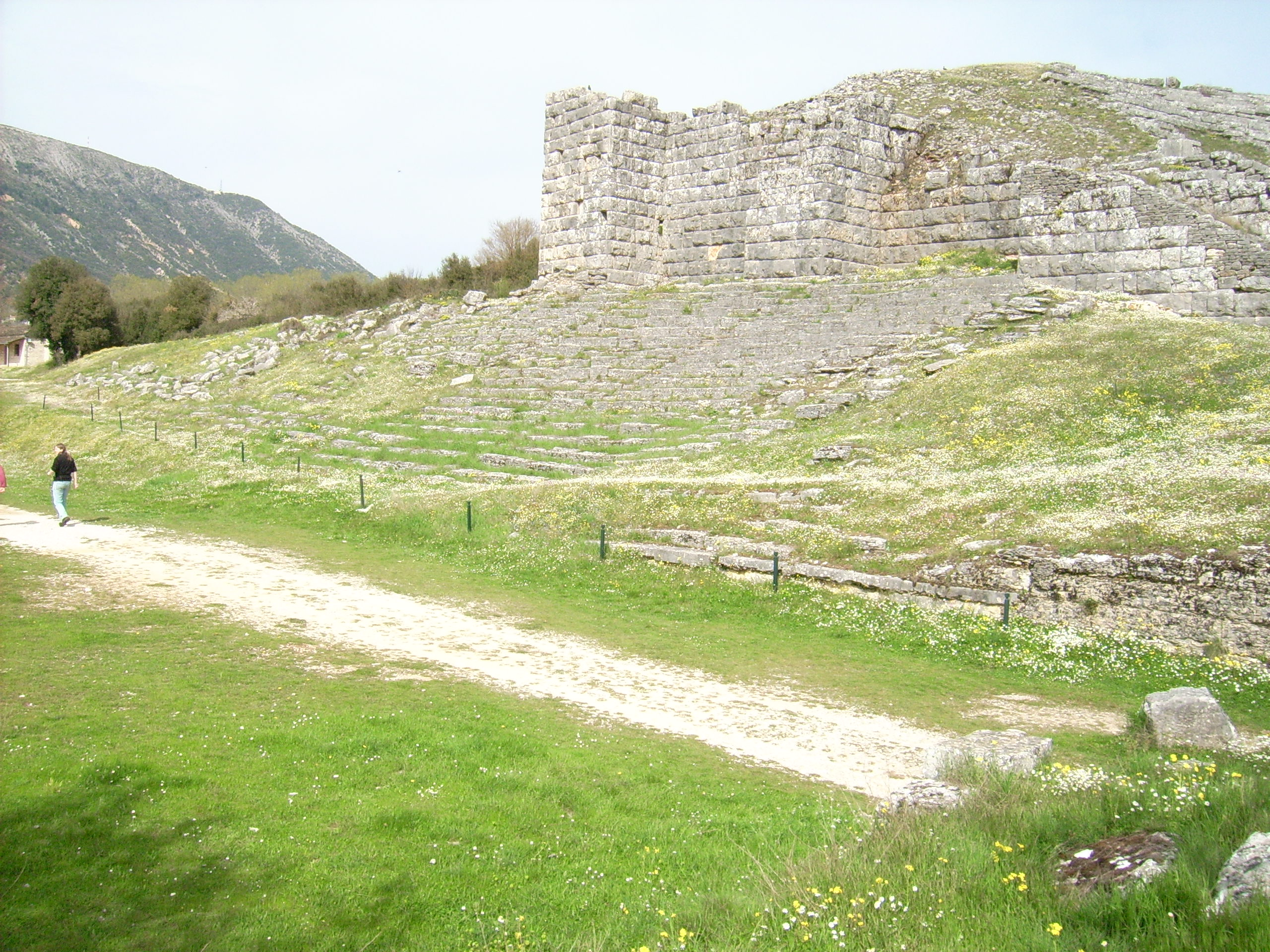 Oracle of Zeus at Dodona - exact discription follows nearby